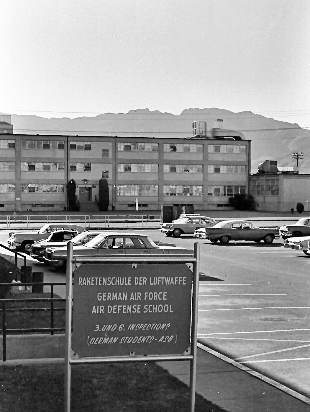 Sign outside German school barracks (bldg 1002, 1968)